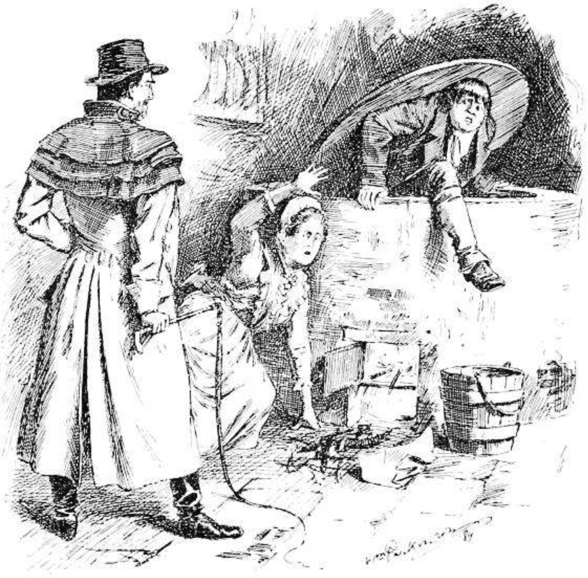 "Parson Chowne and Sally's Young Man" illustration in Baring-Gould, Rev. Sabine, Old Country Life, London, 1890, Chapter 6. Parson Chowne is a character in The Maid of Skerne (1872) by R.D. Blackmore, based on the real life Rev John Froude II (1777-1852) of Knowstone and East Anstey, both in Devon, vicar of Molland-cum-Knowstone, in Devon, was an extreme example of the "hunting parson" [1]